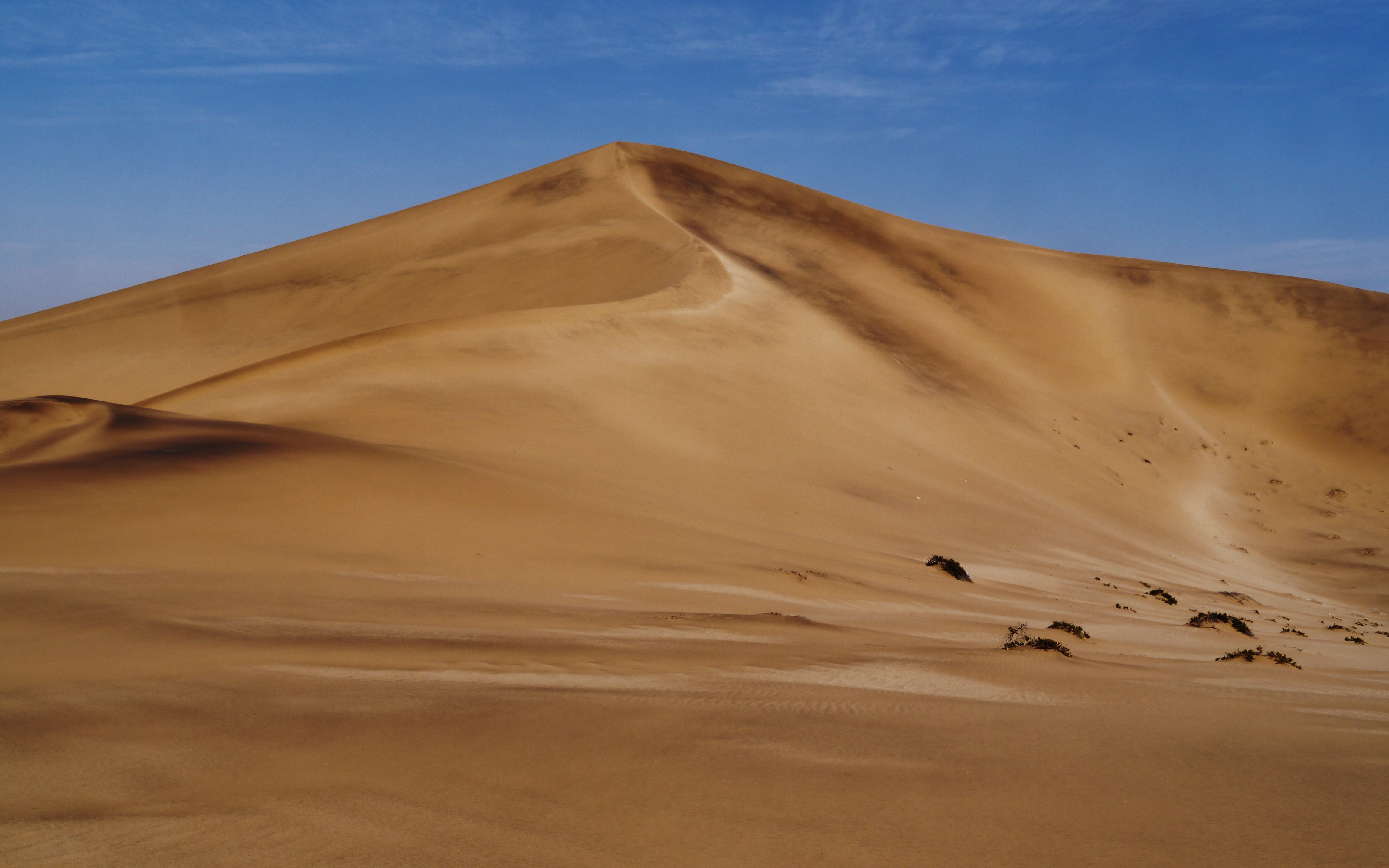 Dune 7 near Walvis Bay, Region of Erongo, Namibia